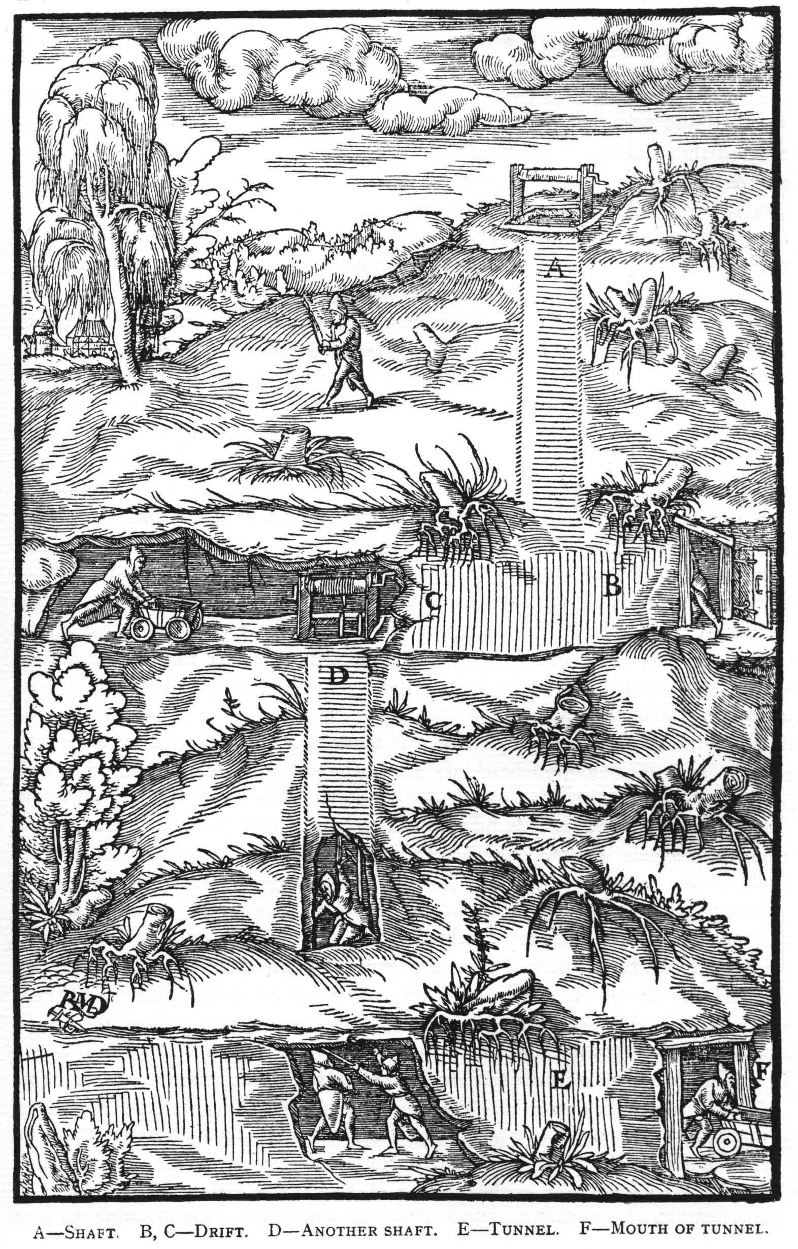 Woodcut illustration from De re metallica by Georgius Agricola. This is a 300dpi scan from the 1950 Dover edition of the 1913 Hoover translation of the 1556 reference. The Dover edition has slightly smaller size prints than the Hoover (which is a rare book). The woodcuts were recreated for the 1913 printing. Filenames (except for the title page) indicate the chapter (2, 3, 5, etc.) followed by the sequential number of the illustration.